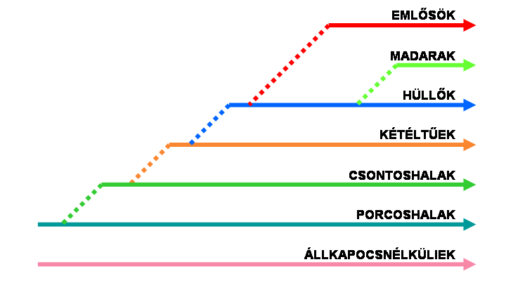 Relationships between major vertebrate groups (hungarian)